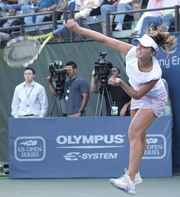 Michelle Larcher de Brito at the U.S. Open Series at Stanford playing Serena Williams.